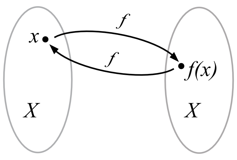 Involution